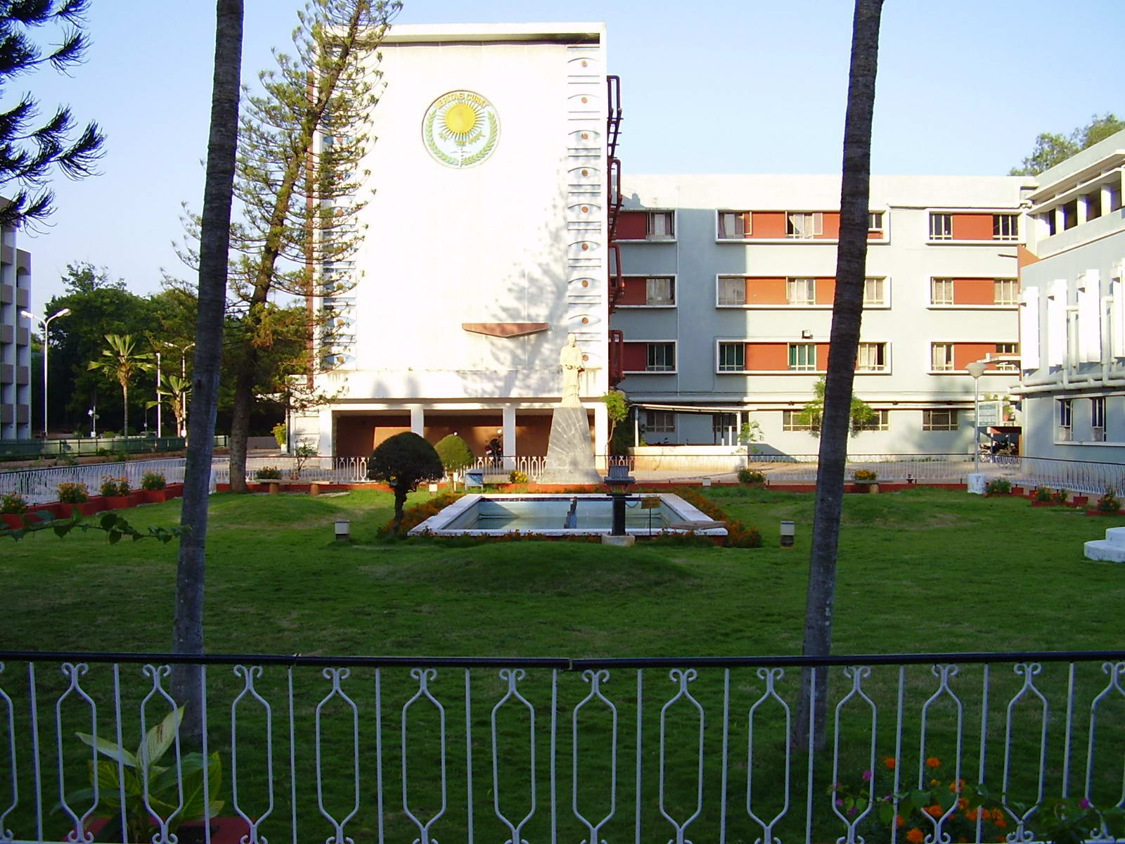 Lecture theatre complex